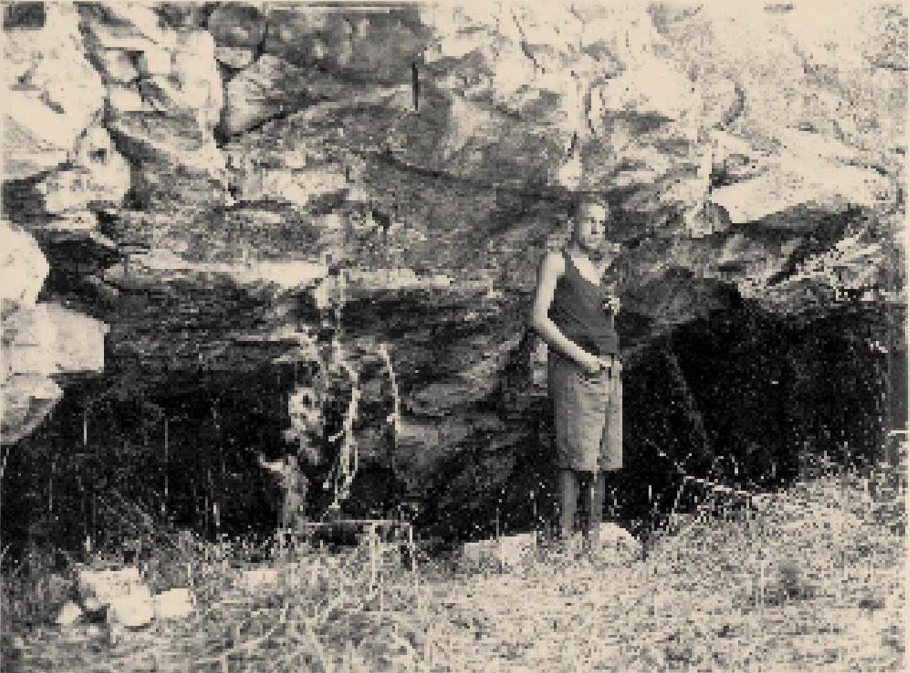 Kecskés-galya Cave entrance 2.